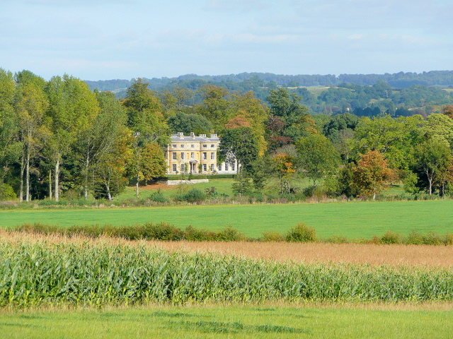 Wormington Grange; early autumn A view from the south-west over a field of maize in the foreground. Wormington Grange featured in several Father Brown episodes: "The Flying Stars", "The Last Man" and "The Smallest of Things".